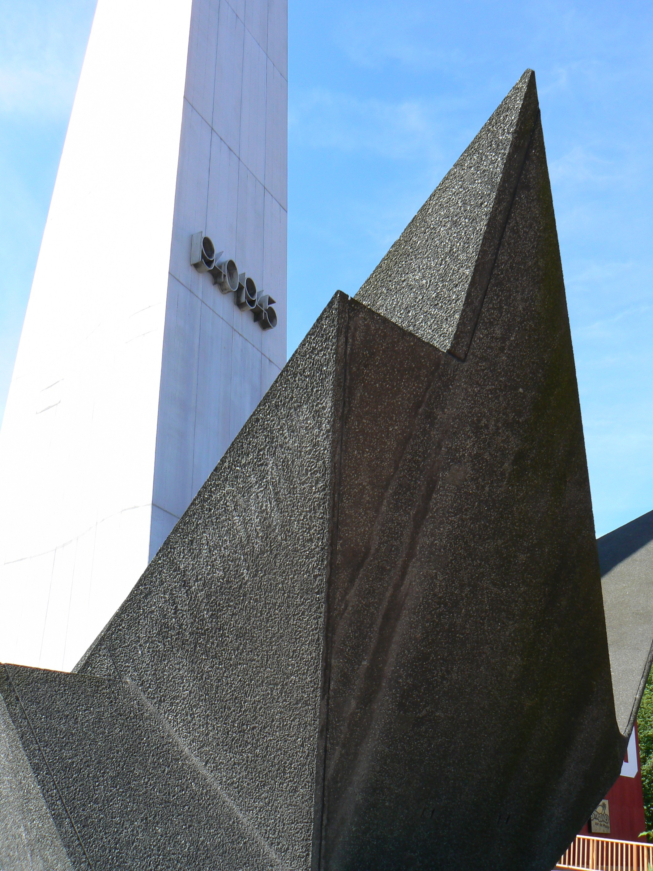 Monument for the war victims of the merchant fleet 1940-1945, Rotterdam/The Netherlands by A. Carasso.